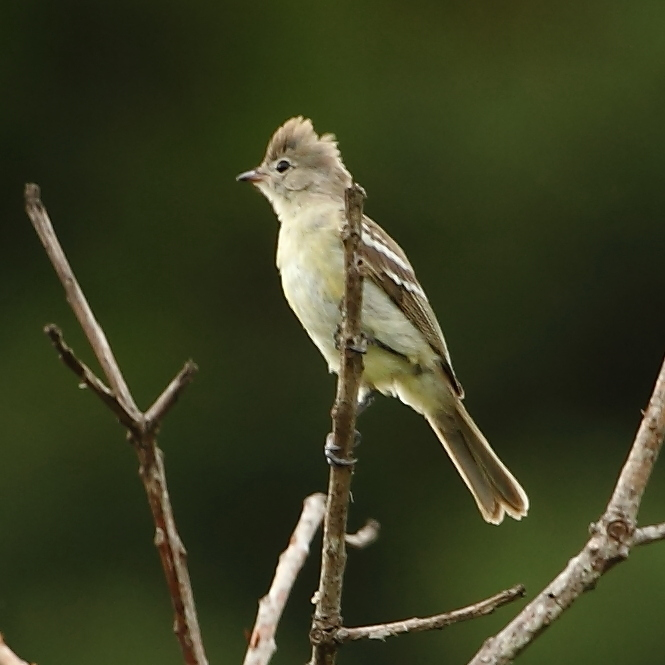 Yellow-bellied Elaenia at Bragança Paulista - SP - Brazil